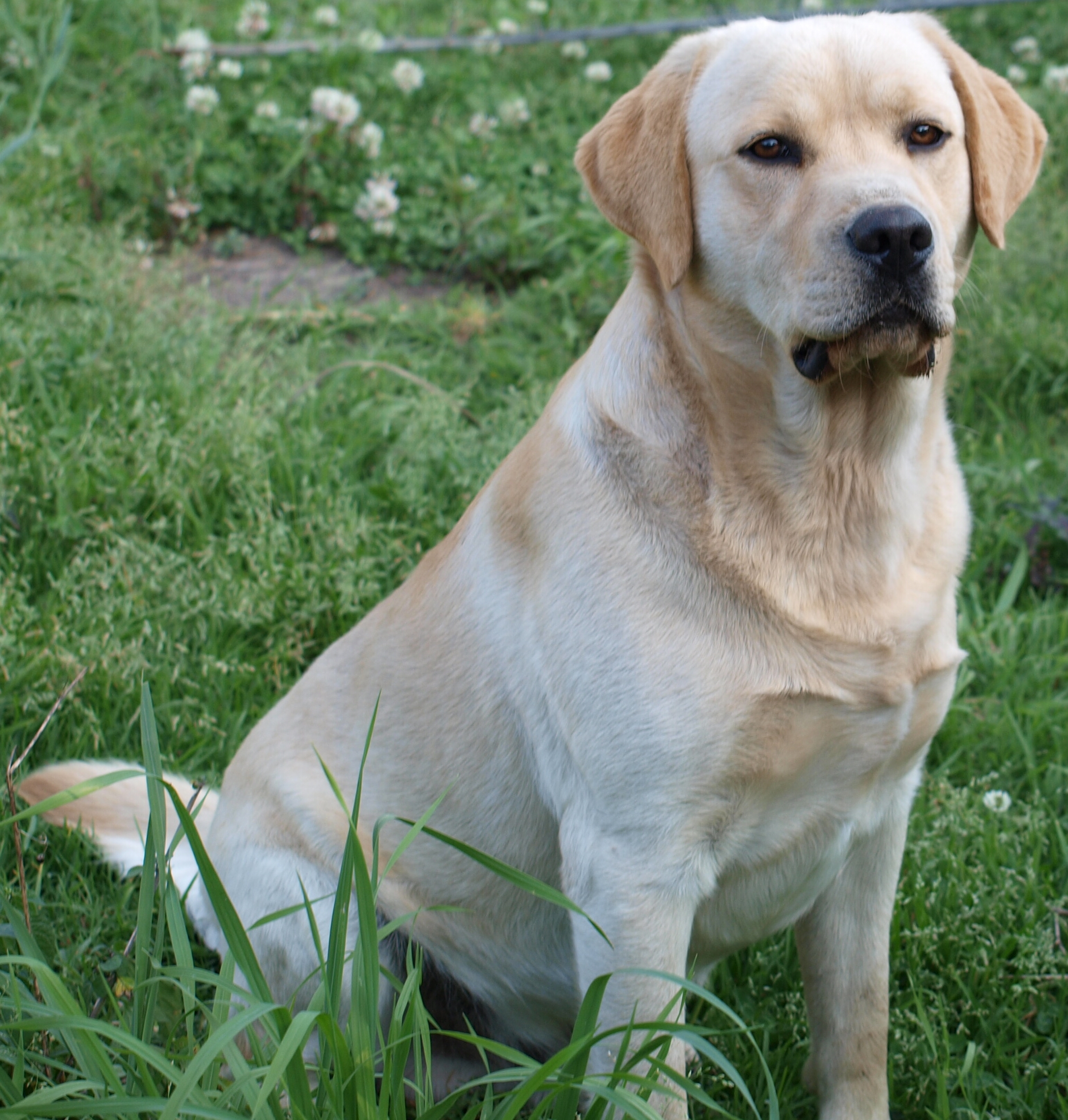 A male yellow adult Labrador Retriever sitting.